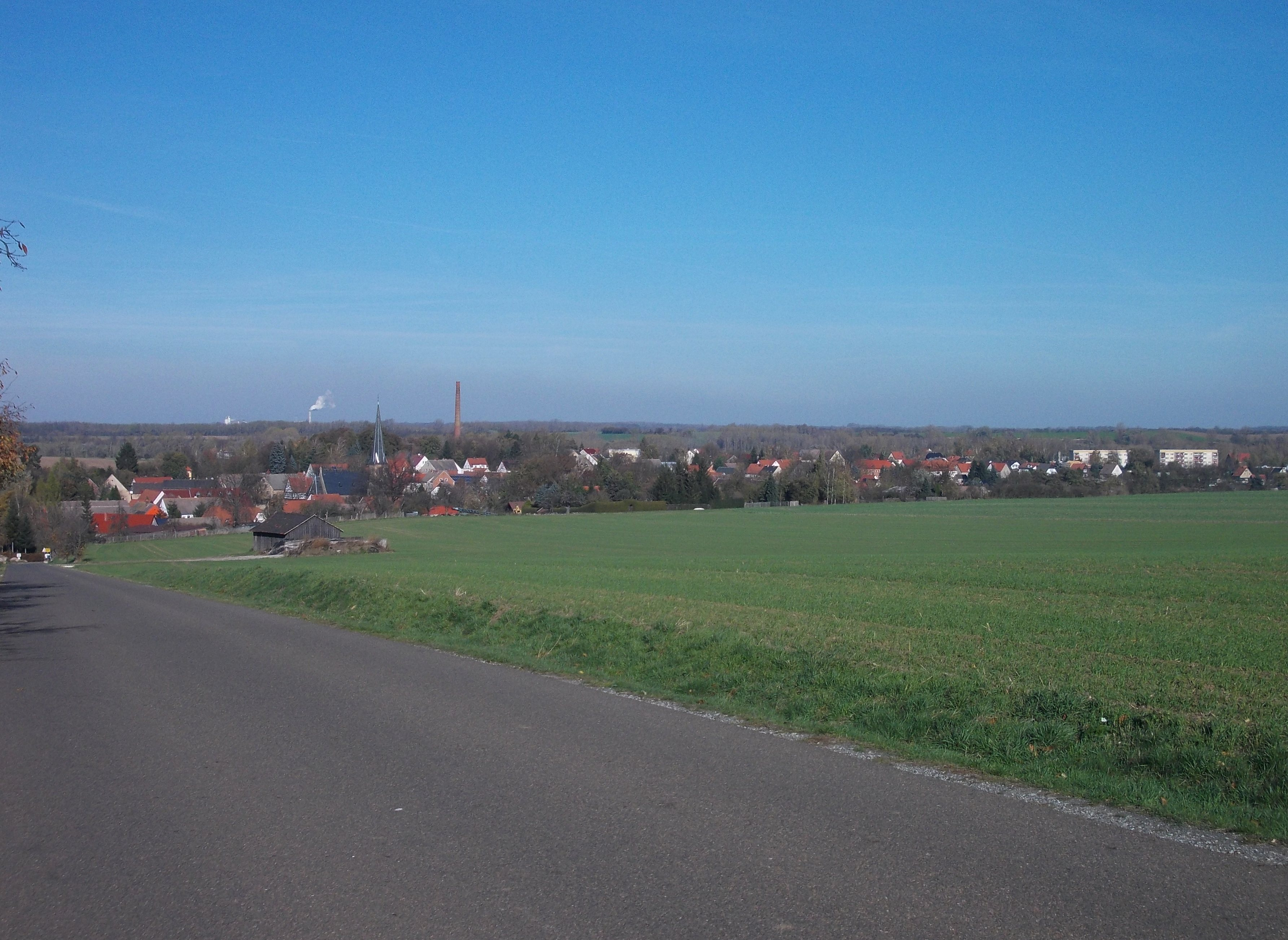 Kretzschau (district: Burgenlandkreis, Saxony-Anhalt) from the south-wesr